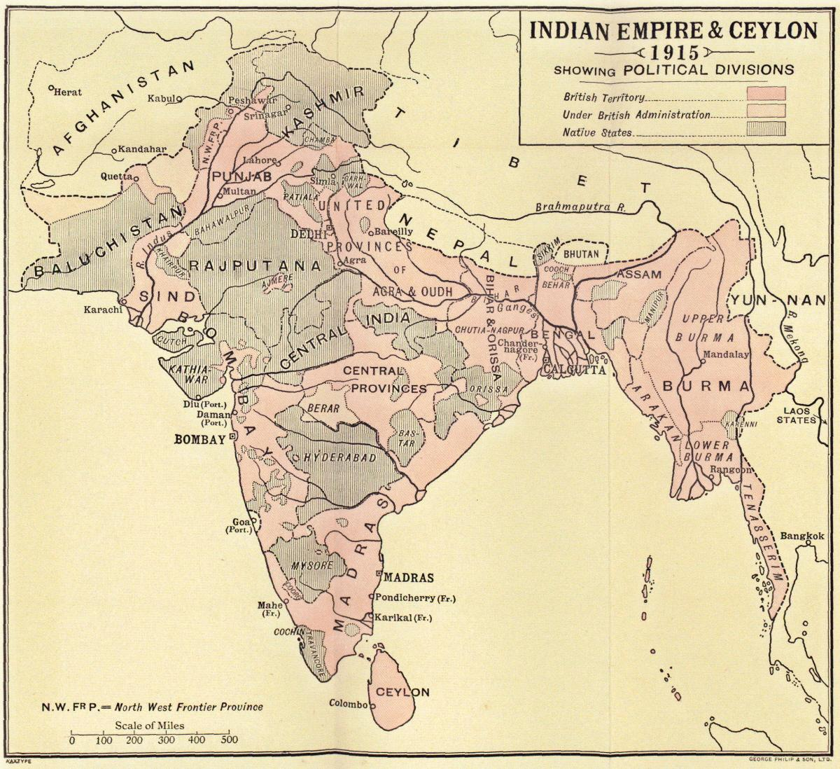 Map of British Indian Empire and Ceylon in 1915 at the end of Vincent Smith's India in the British Period (part III, Oxford History of India), Oxford: Clarendon Press, 1920. Scanned, reduced, and uploaded from personal copy by Fowler&fowler«Talk» 12:00, 17 February 2009 (UTC)